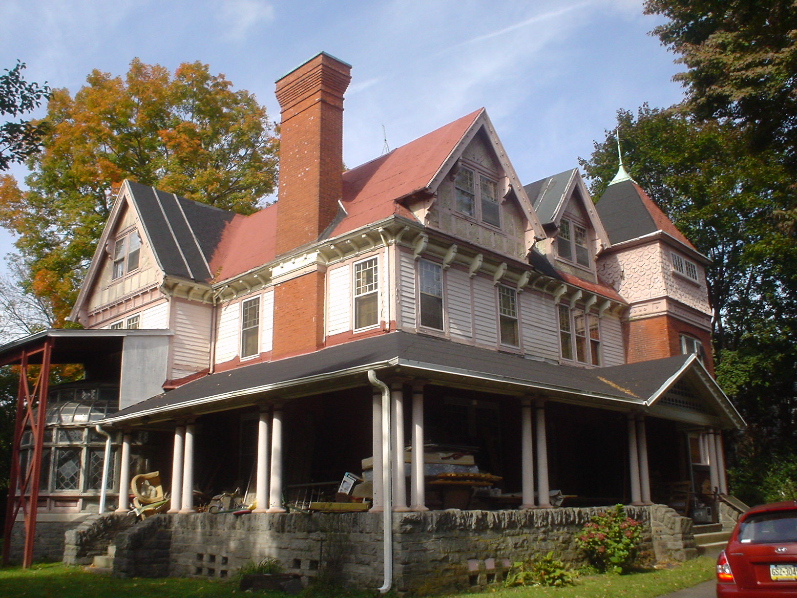 Westlawn in Wallingford, PA (near Media, PA).